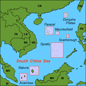 Map (rough) of South China Sea, own work composed from various mapreferences